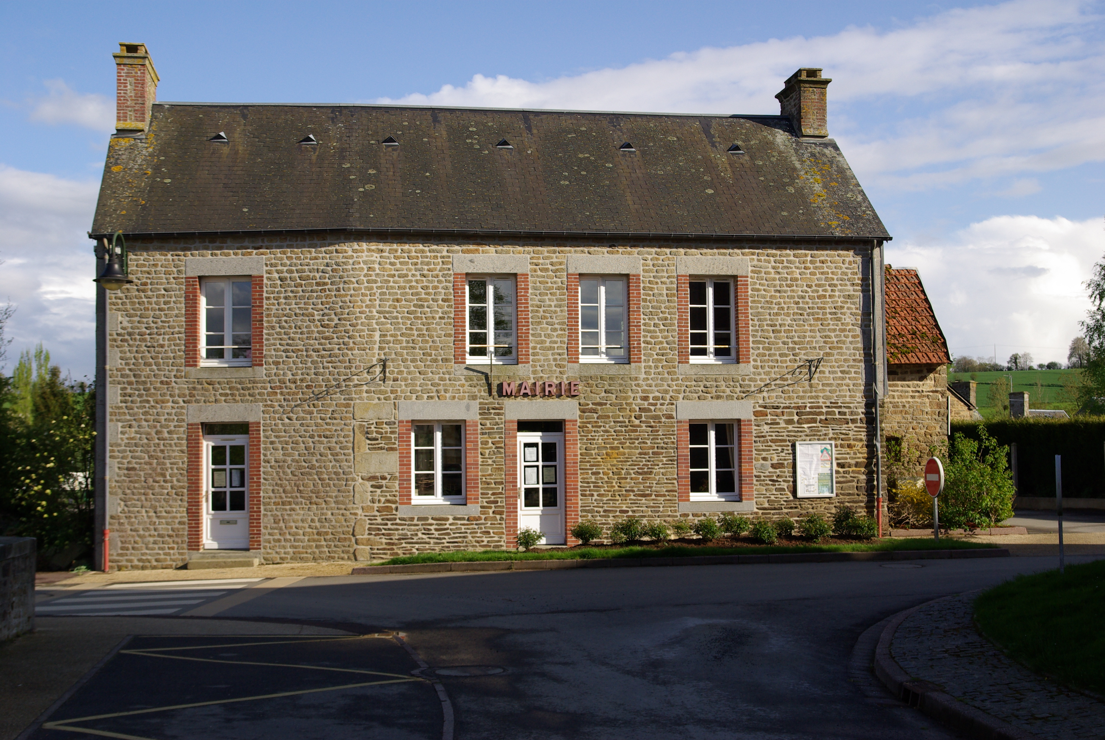 The town hall of Frênes